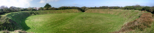 St Piran's Round. Panoramic of the earthwork bank and ditch known as 'St Piran's Round', northwest of Goonhavern.